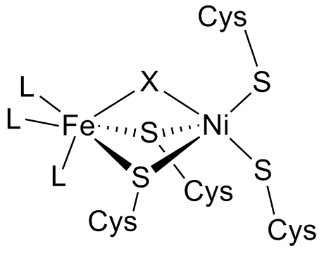 The active site of [NiFe] hydrogenase with coordinated cysteine thiolates, non-protein ligand (L) and bridging ligand (X)